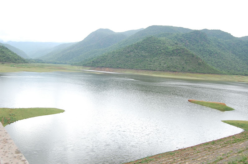 Vaniyar Dam, near Pappireddipatti